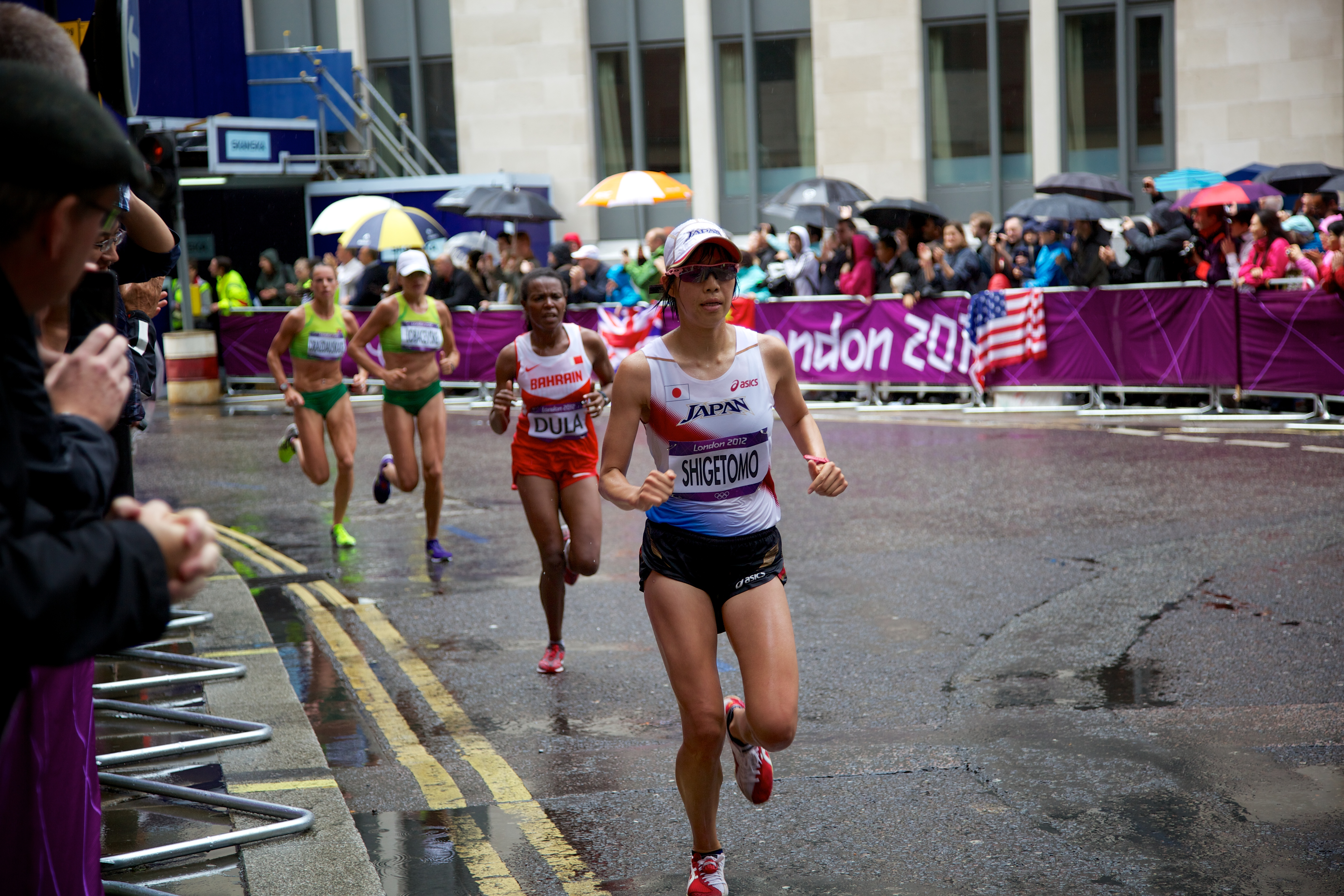 Women's Marathon, Lishan Dula, Risa Shigetomo